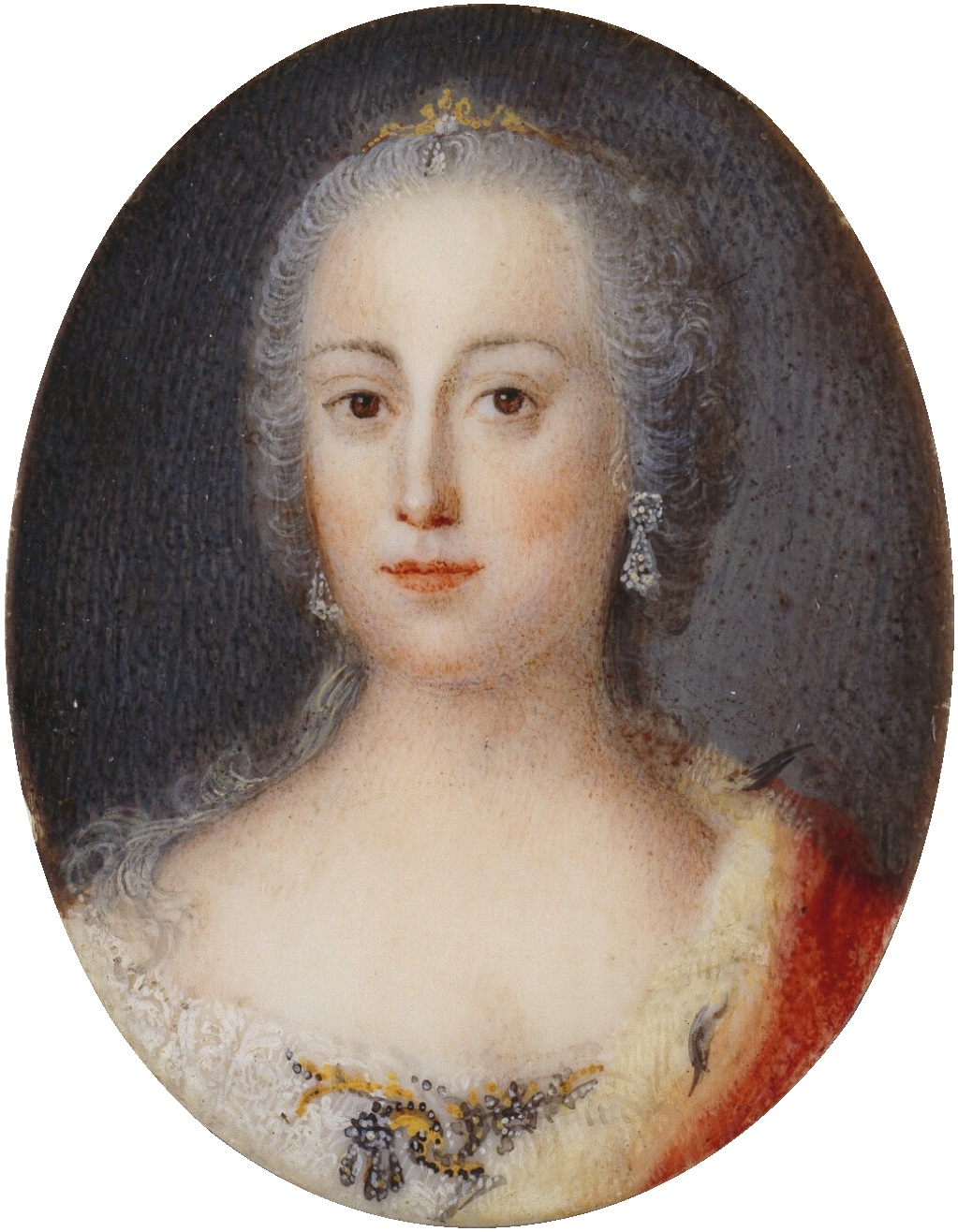 Portrait of Archduchess Maria Anna of Austria (1718–1744)